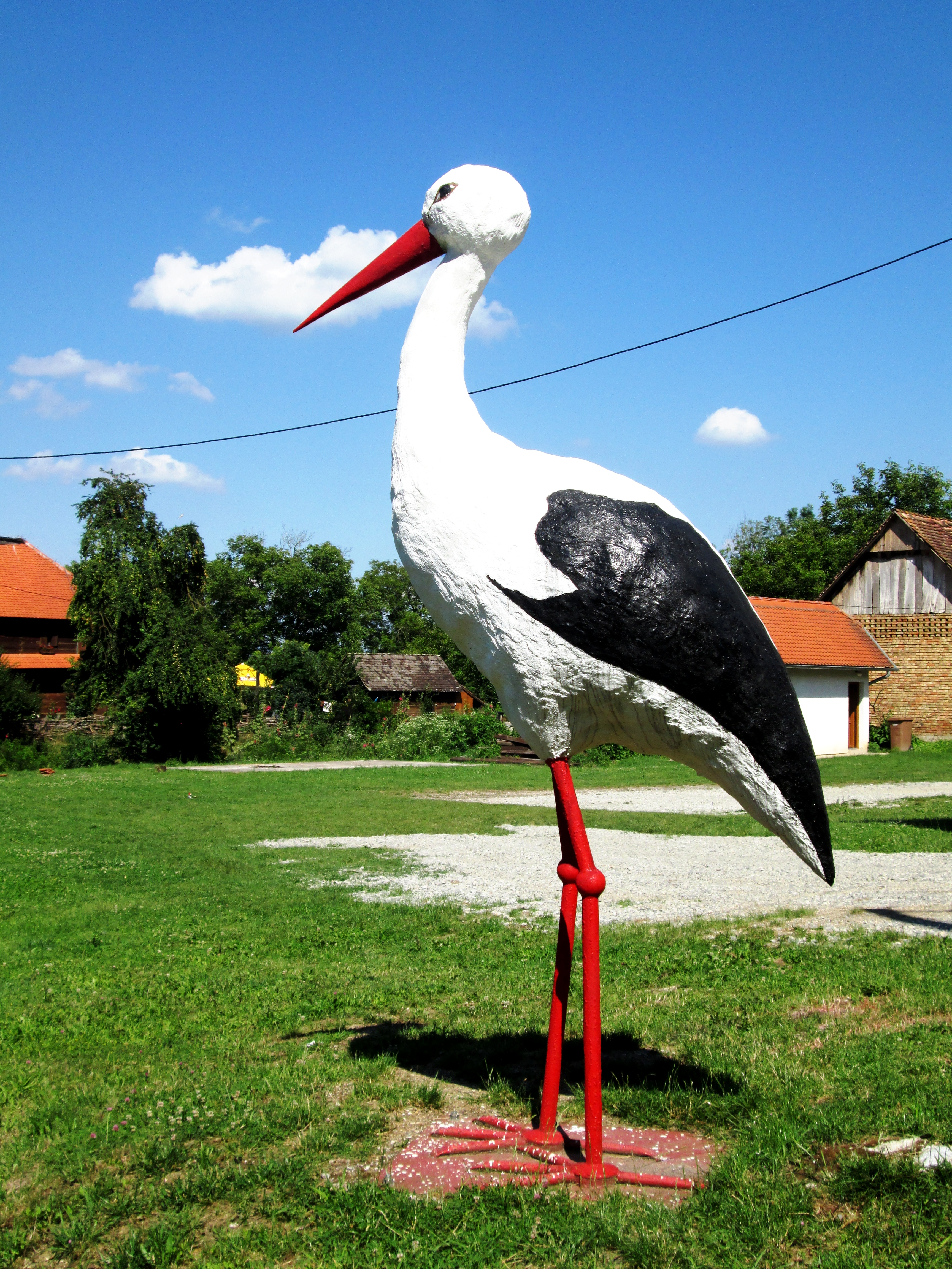 Monument of stork, Village of Cigoc in Croatia, European Stork Village